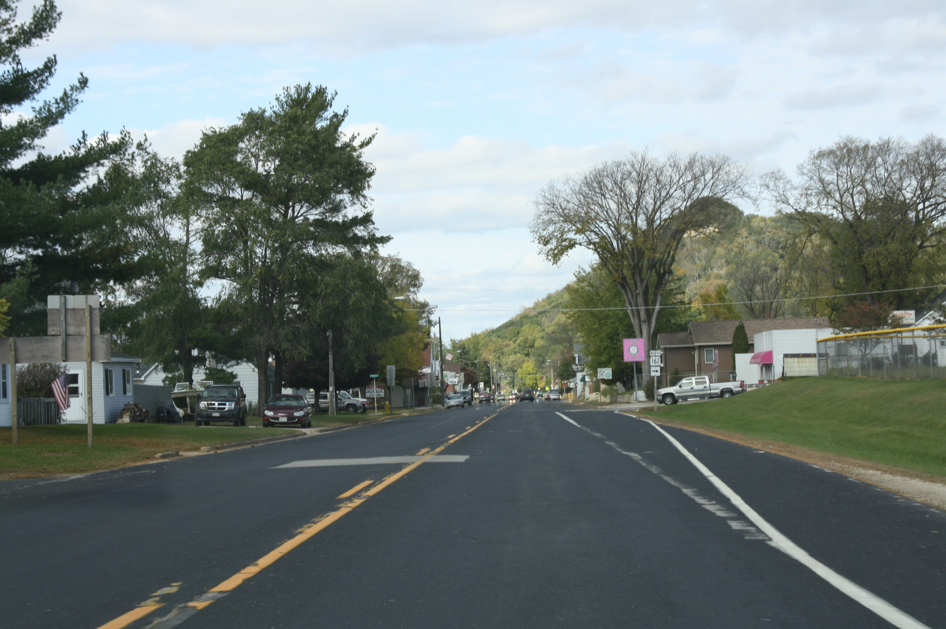 Looking north at the western terminus of Wisconsin Highway 162 in Stoddard, Wisconsin.